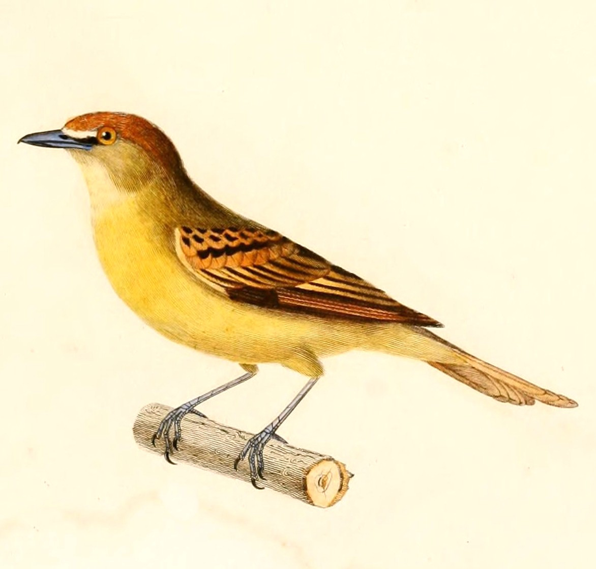 « Pachyrhynchus marginatus » = Pachyramphus marginatus (Black-capped Becard)